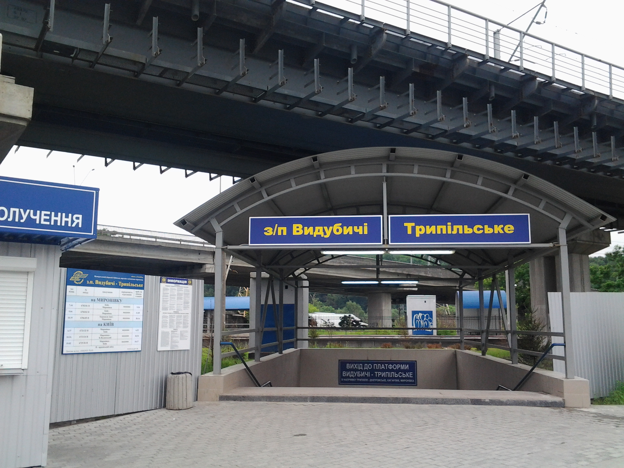 Vydubychi-Trypilski Railway Halt in Kyiv, Ukraine